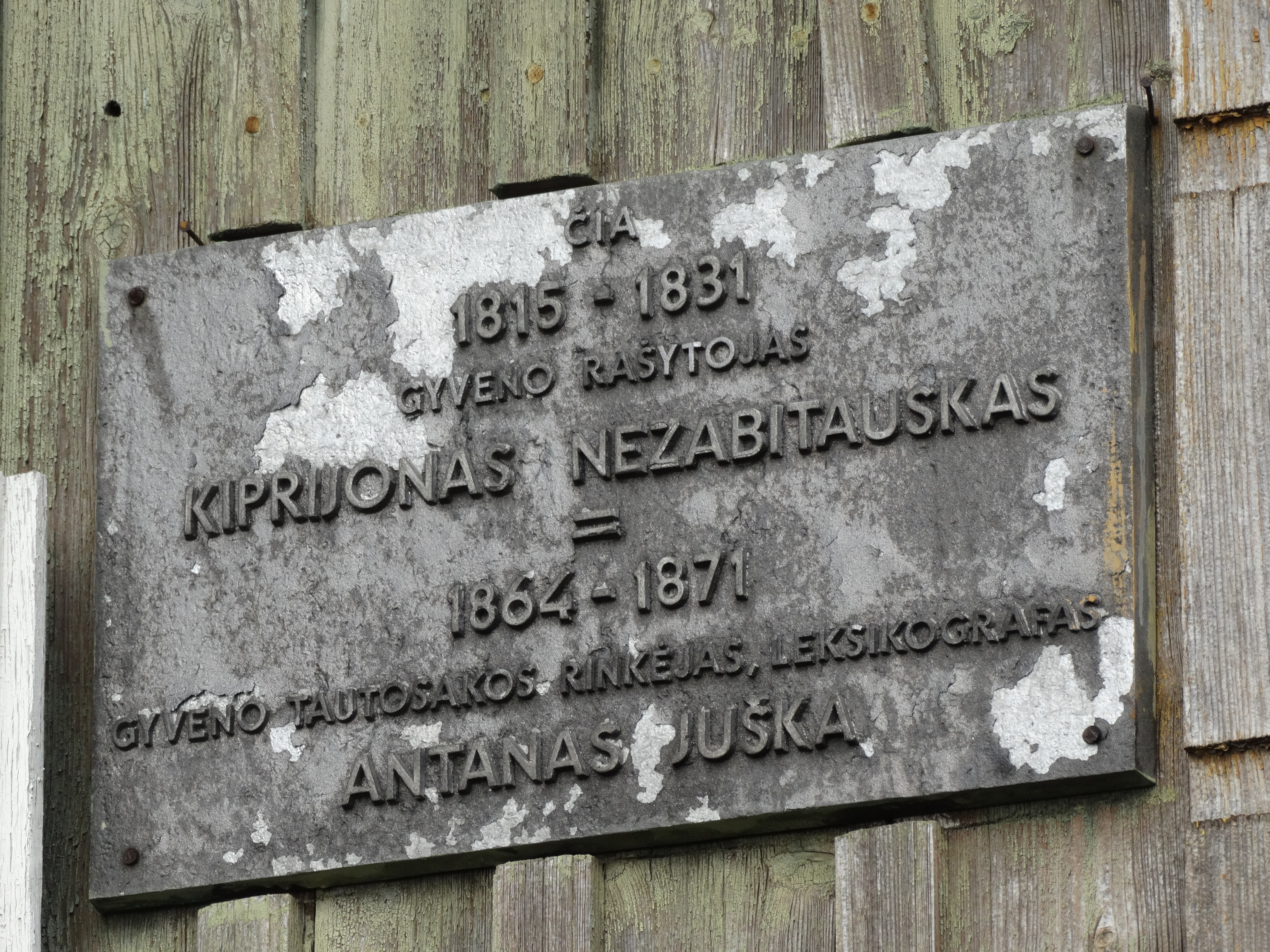 Memorial plaque, Veliuona, Jurbarkas district, Lithuania